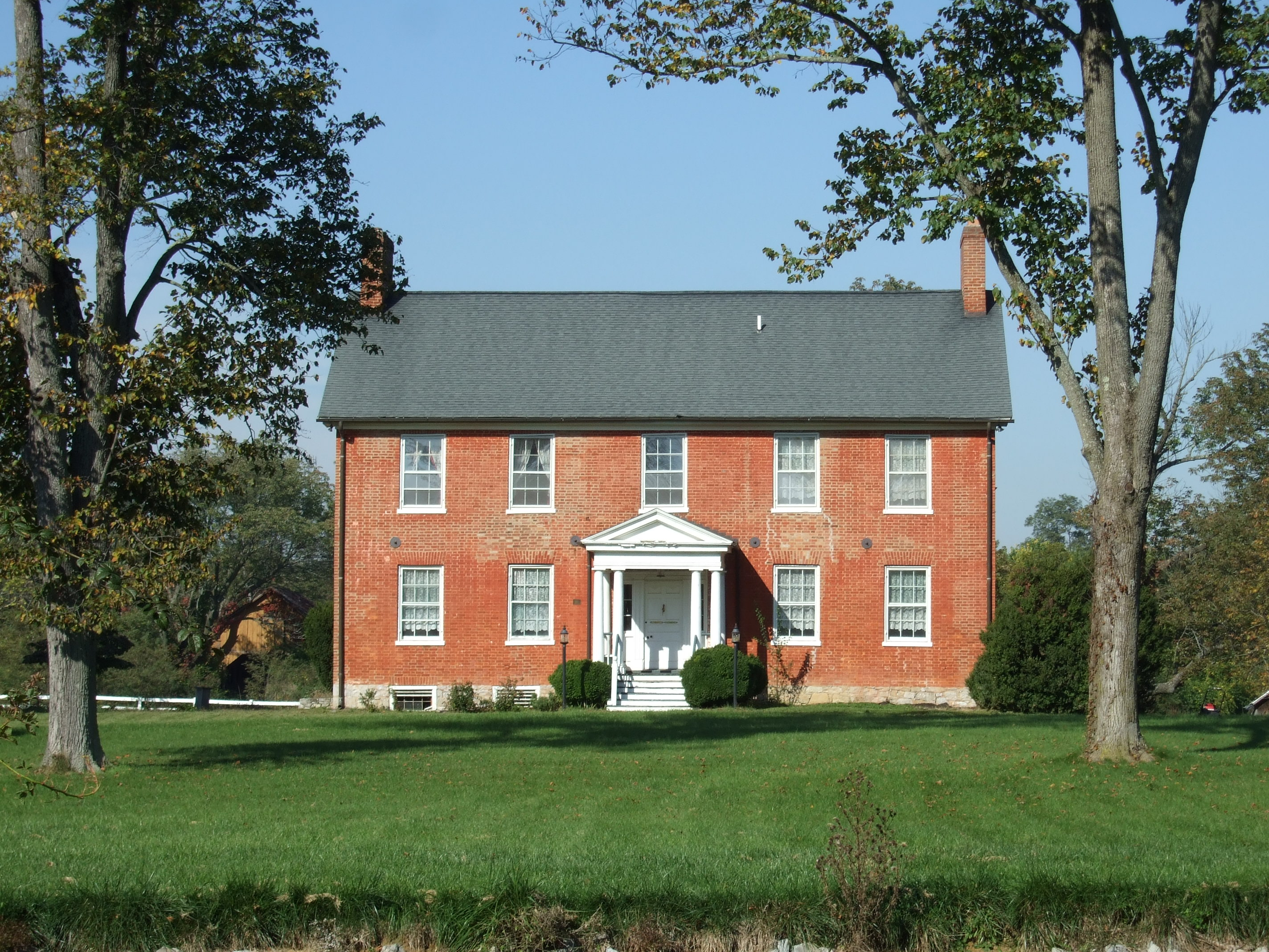 Edgewood Manor in Bunker Hill, WV is the home to where J. Johnston Pettigrew was taken until he was too weak to go further. He met his demise here.